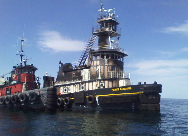 The fire damaged Patrice McCallister being towed by the Rowan McCallister. Original caption: “The burned-out tug Patrice McAllister is towed to Clayton, New York, after its injured crew was rescued by the Canadian Forces and the Canadian Coast Guard. Photo: U.S. Coast Guard”